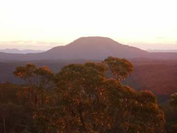 This is a photograph taken by Wright. T of Mountain Yengo, located in the Wollombi Ranges, NSW, Australia. Mountain Yengo is the lone mountain in the distance. Mountain Yengo is very significant and connected to the Biamie God of Aboriginal Mythology.